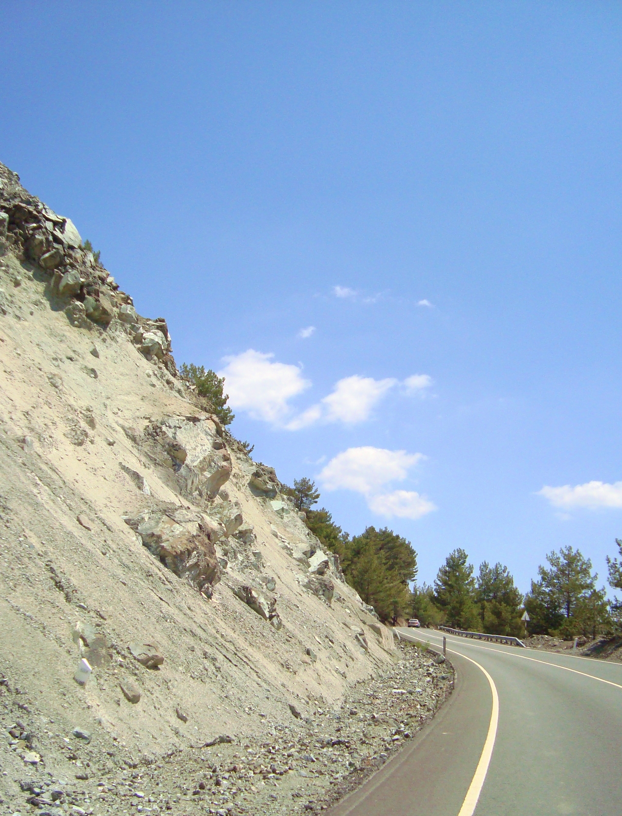 Road parallel to Amiantos village, Troodos Mountains in west-central Cyprus.